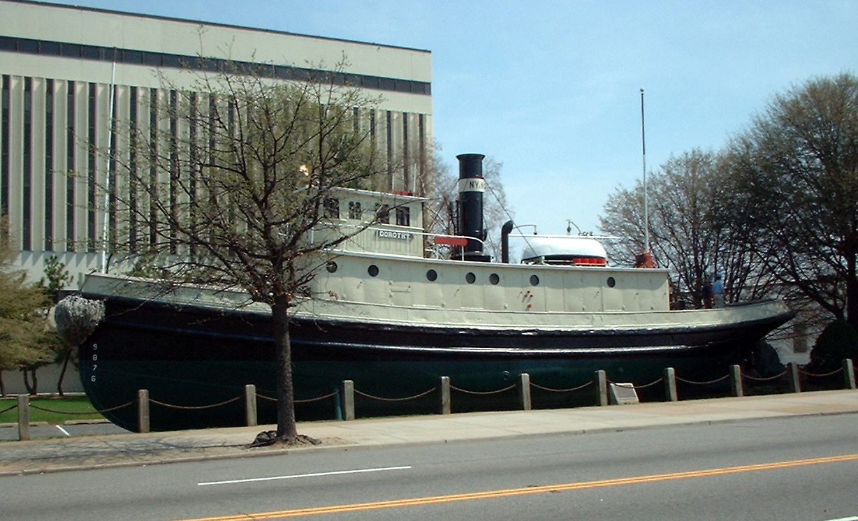 Tugboat Dorothy, on display, the shipyard's first vessel delivered, in 1891